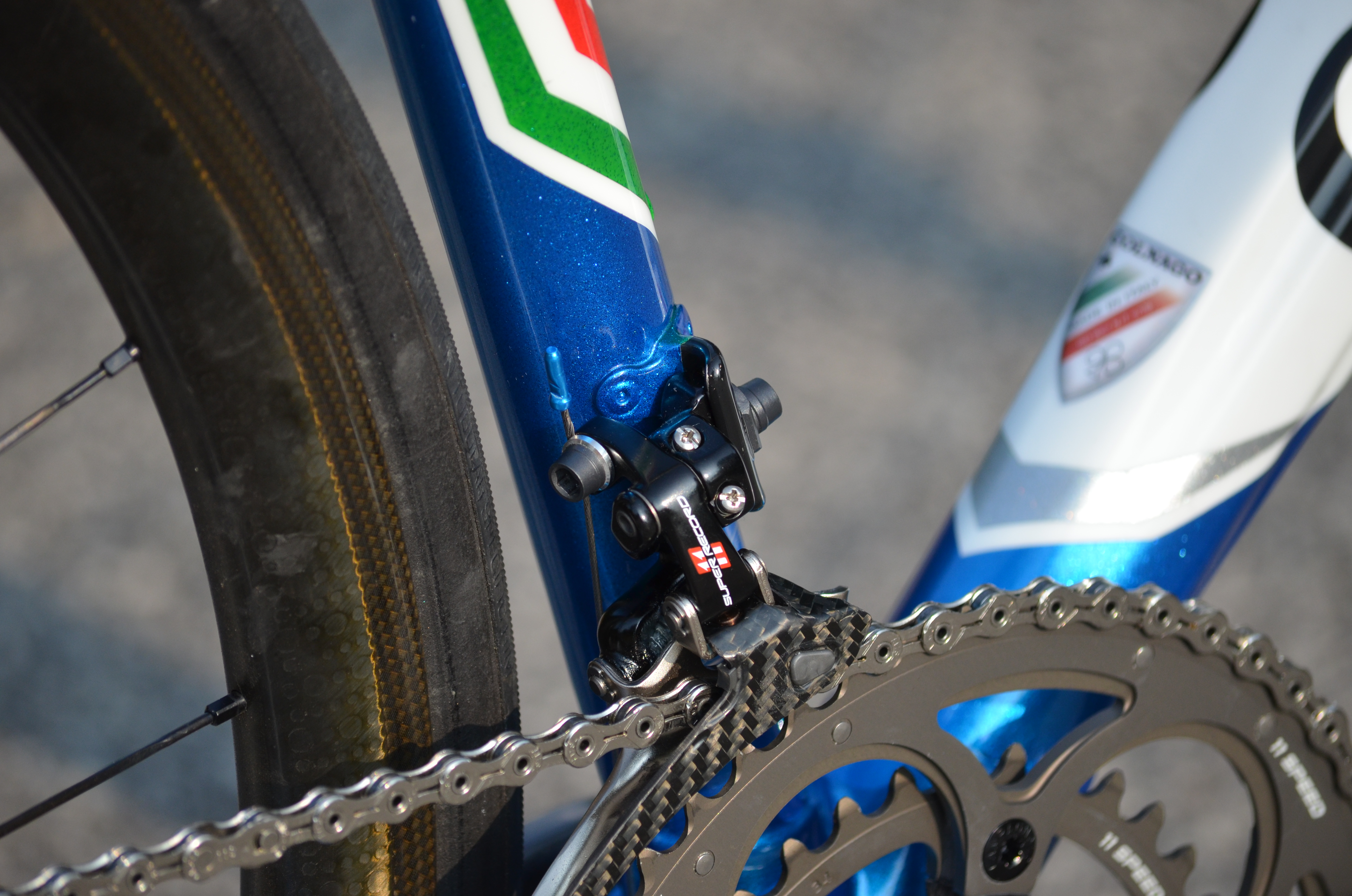 Colnago at Glory Cycles